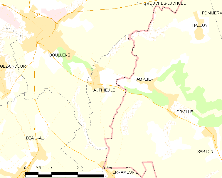 Map of French municipality Authieule